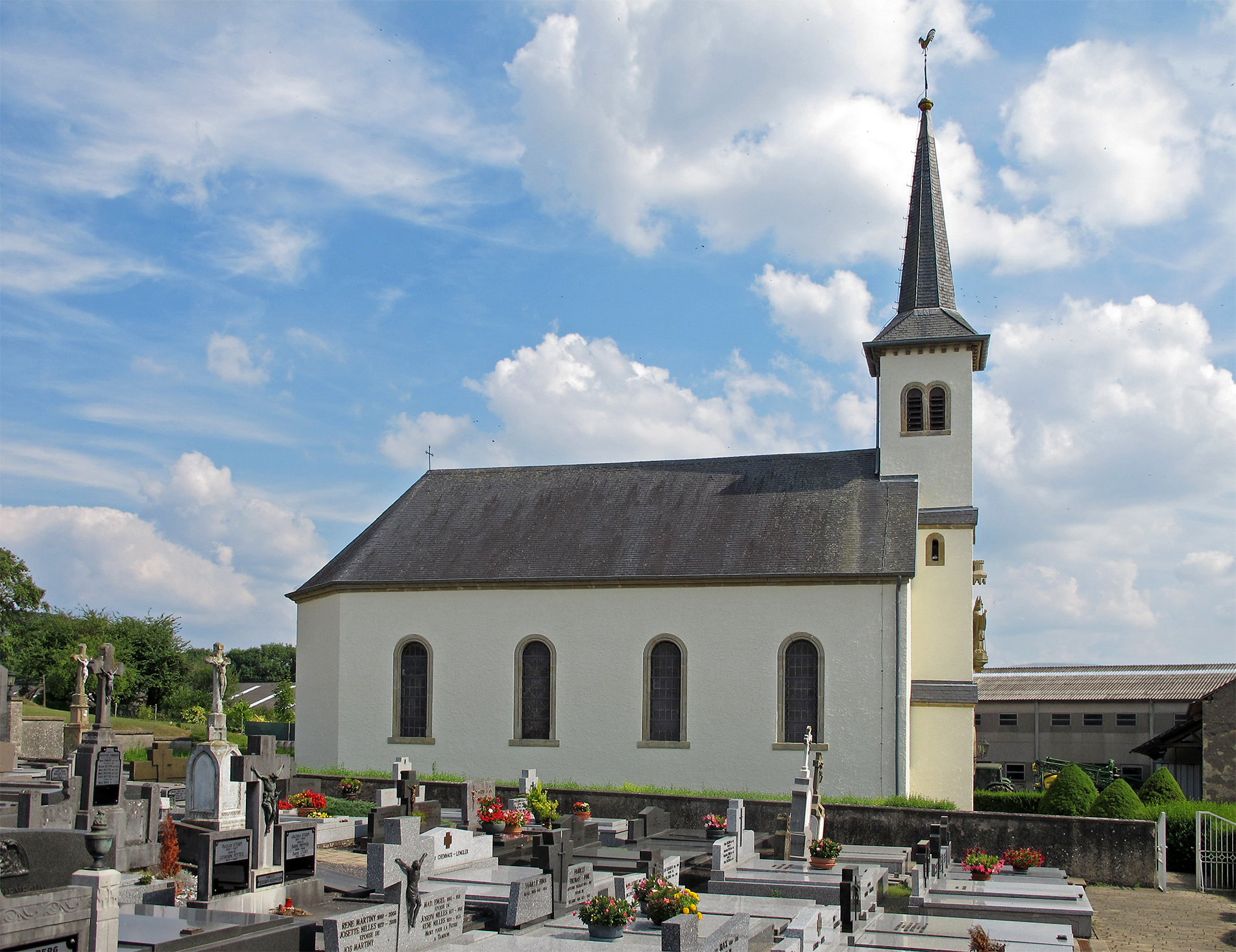 Church of Beyren, Luxembourg